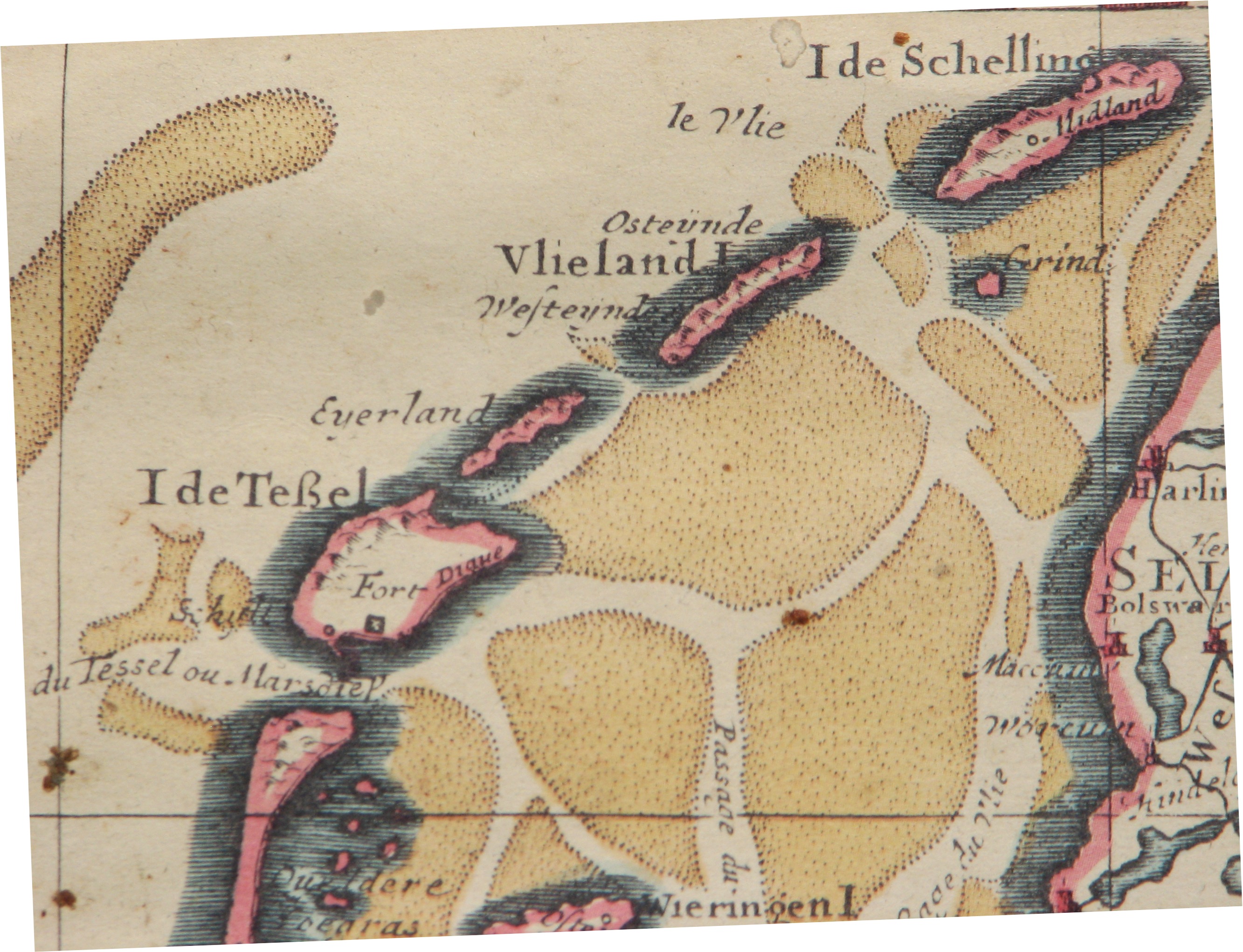 Northern fragment of a map of The Netherlands, publication date circa 1743